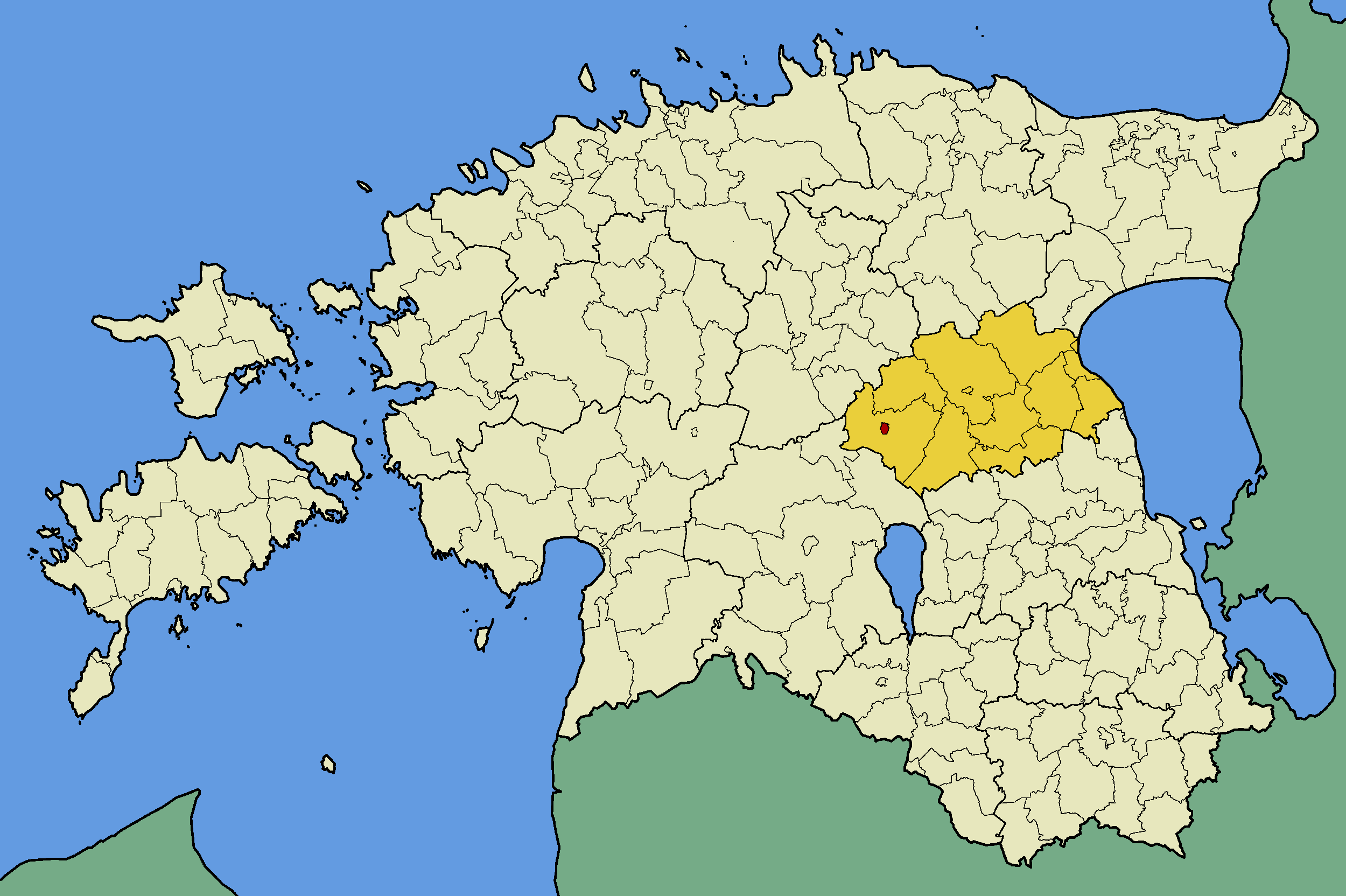 Map of Estonia with borders of municipalities (parishes). Jõgeva county and Põltsamaa town municipality emphasized.